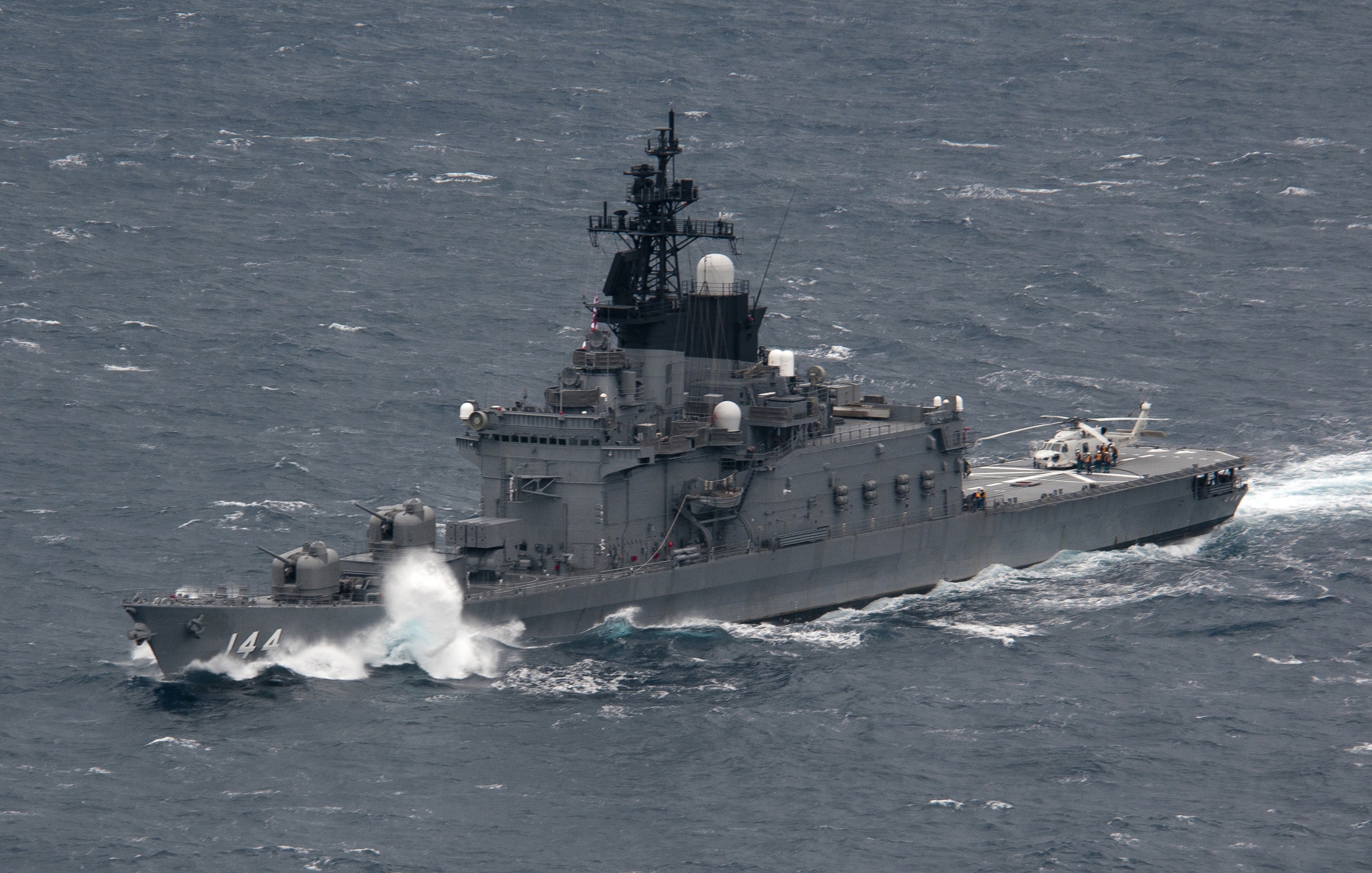 PACIFIC OCEAN (Jan. 10, 2011) The Japan Maritime Self-Defense Force destroyer JS Kurama (DDH-144) is underway in the Pacific Ocean. (U.S. Navy photo by Mass Communication Specialist 2nd Class James R. Evans/Released)